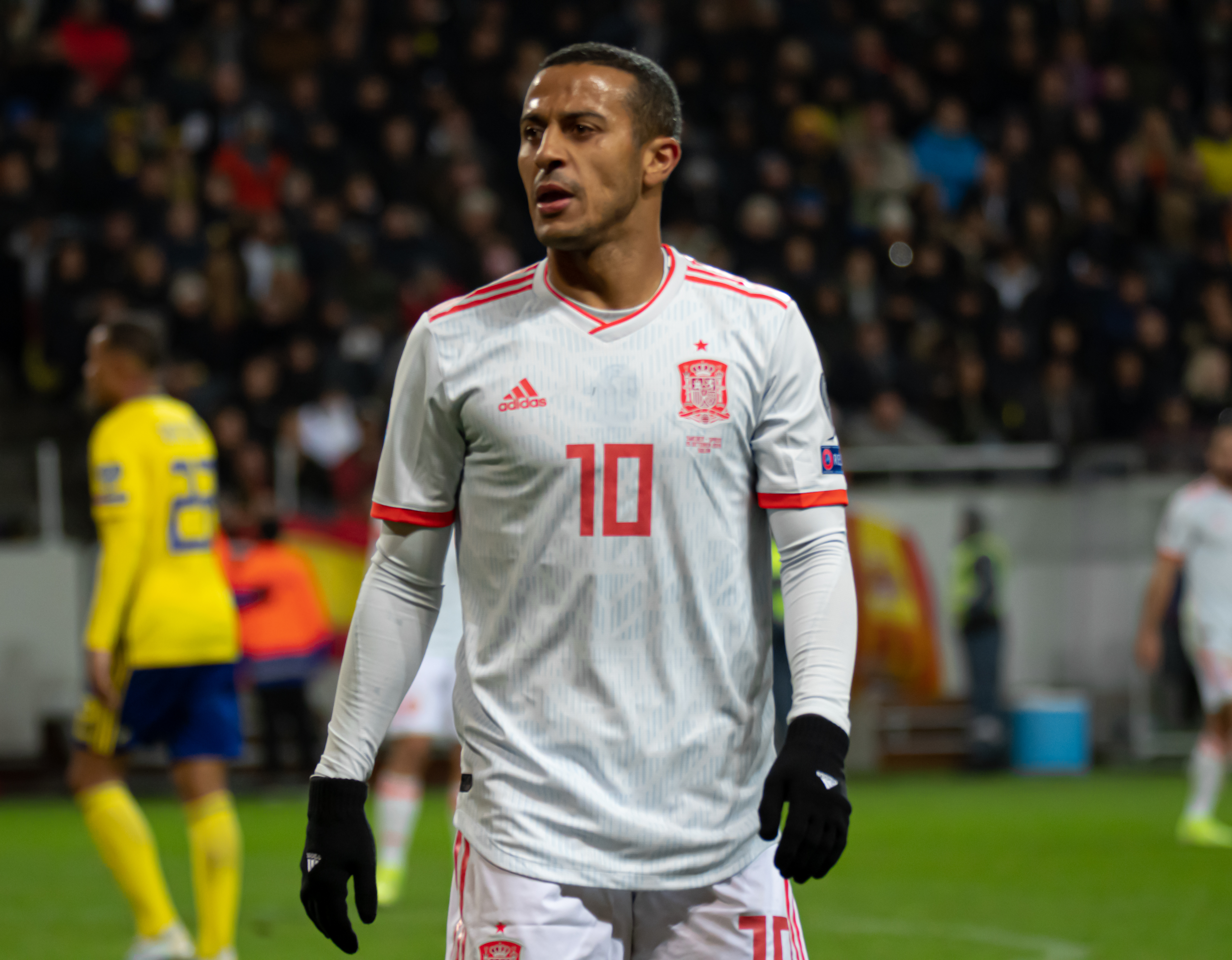 UEFA_EURO_qualifiers_Sweden_vs_Spain_20191015